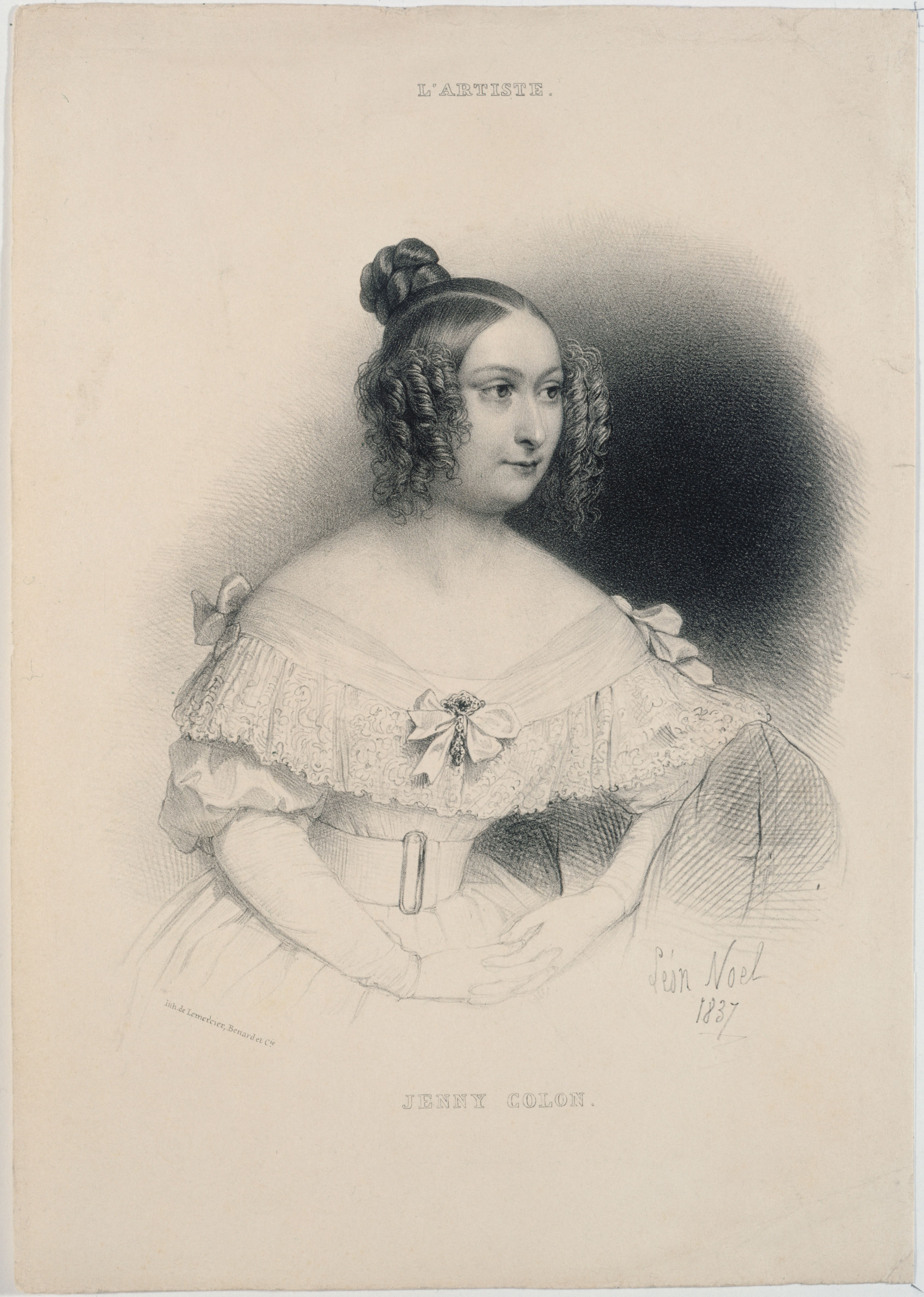 Jenny Colon